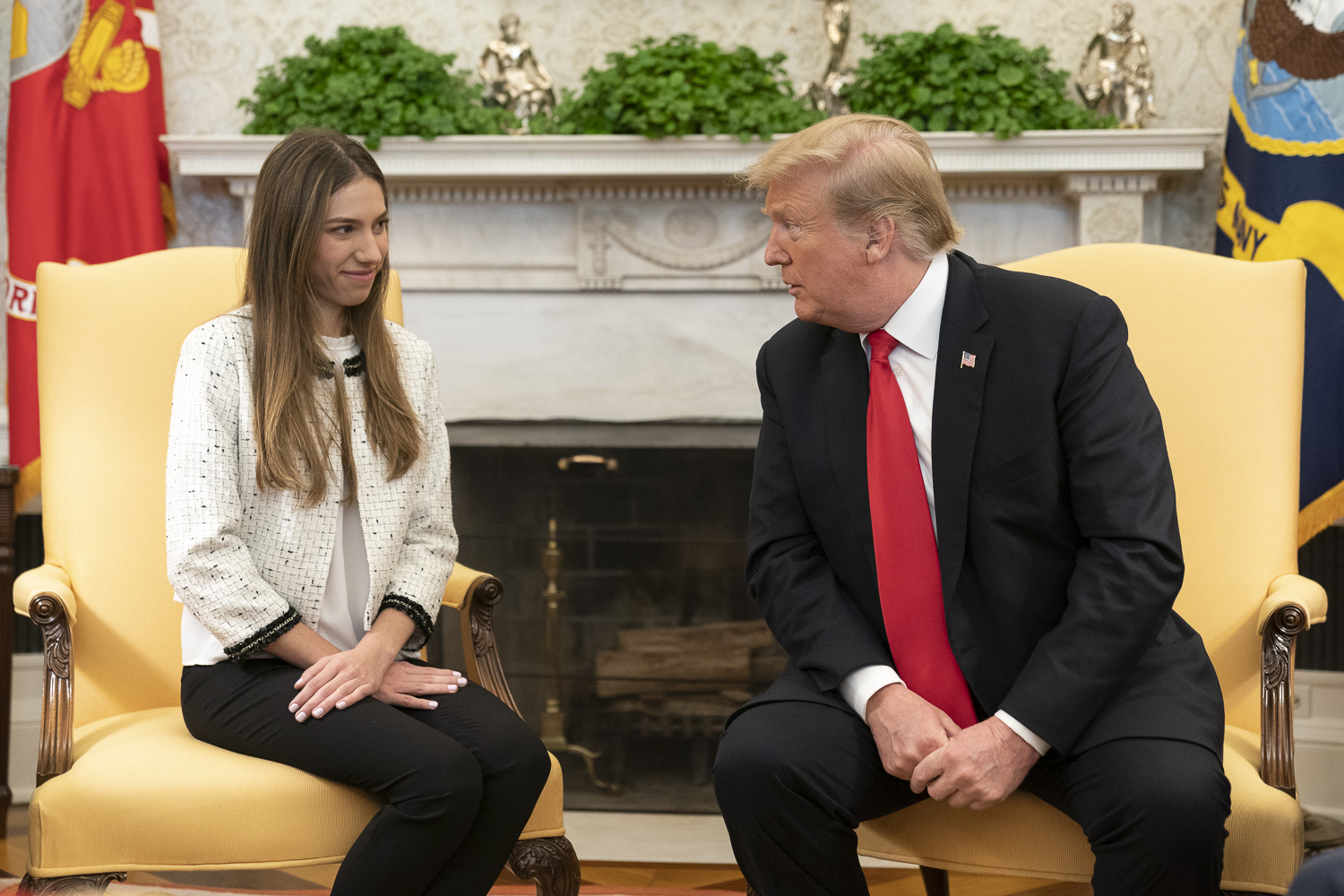 President Donald J. trump meets with Fabiana Rosales de Guaido, the First Lady of the Bolivarian Republic of Venezuela, Wednesday, March 27, 2019, in the Oval Office of the White House. (Official White House Photo by Shealah Craighead)